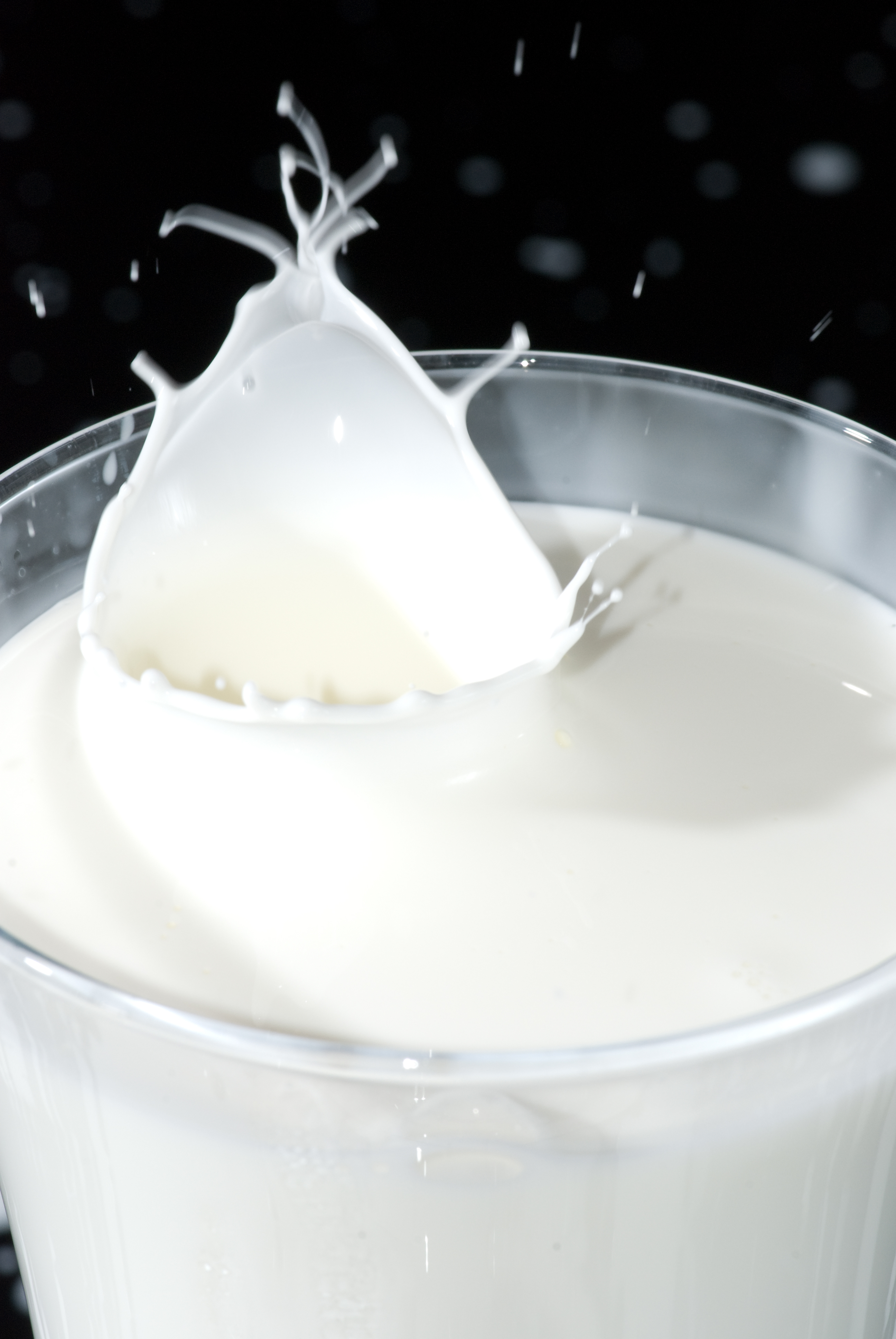 The theme of this photo is white. Shot in RAW. Used on and off-camera strobe and reflectors. No Photoshop except to rotate and convert for Web (so painful). This is my first attempt at stop-motion with an SB-800.